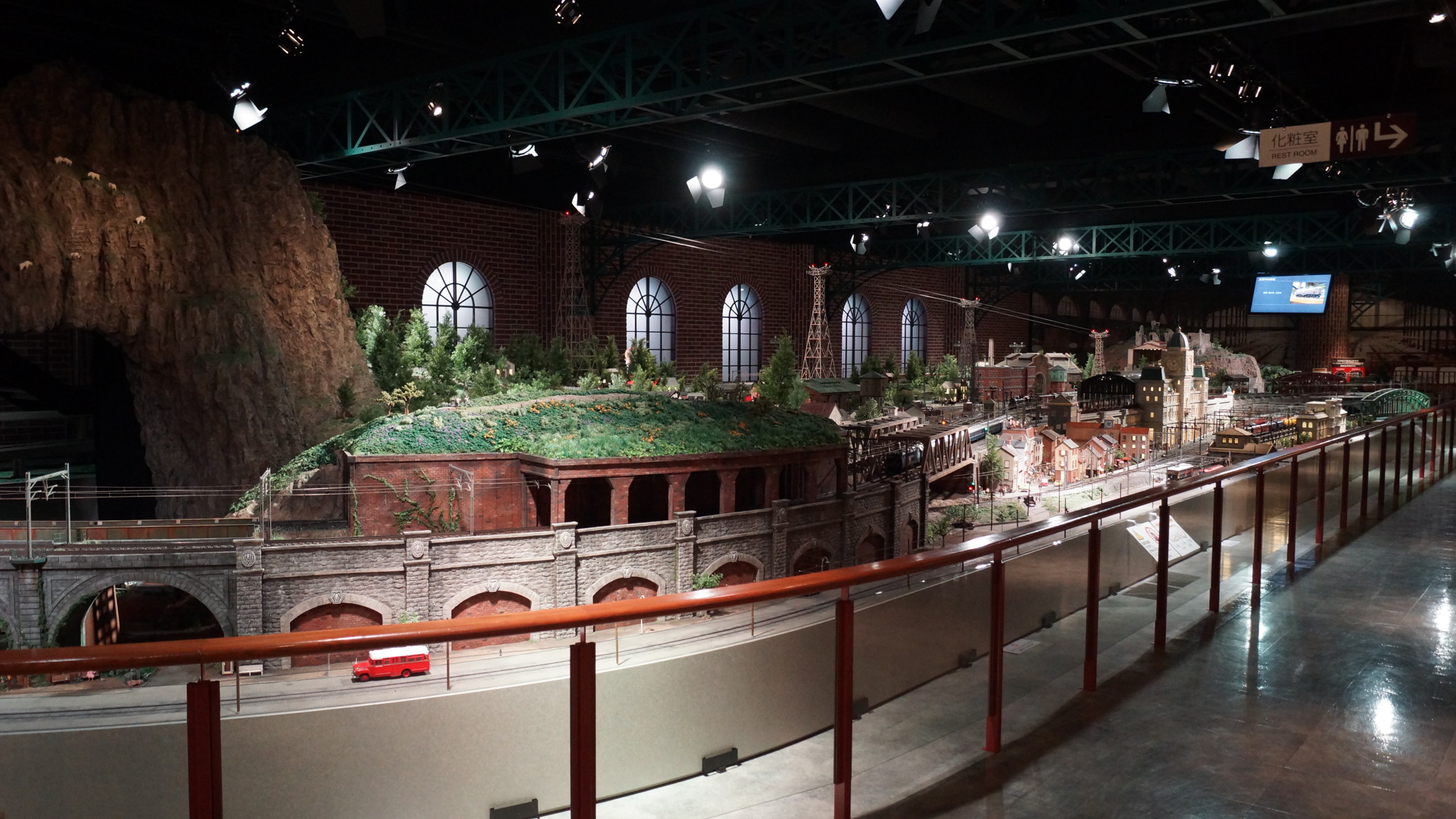 The 1-gauge "Ichiban Tetsumo Park" model railway layout inside the Hara Model Railway Museum in Yokohama, Japan